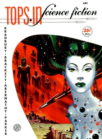 Cover of Fall 1953 issue of Tops in Science Fiction